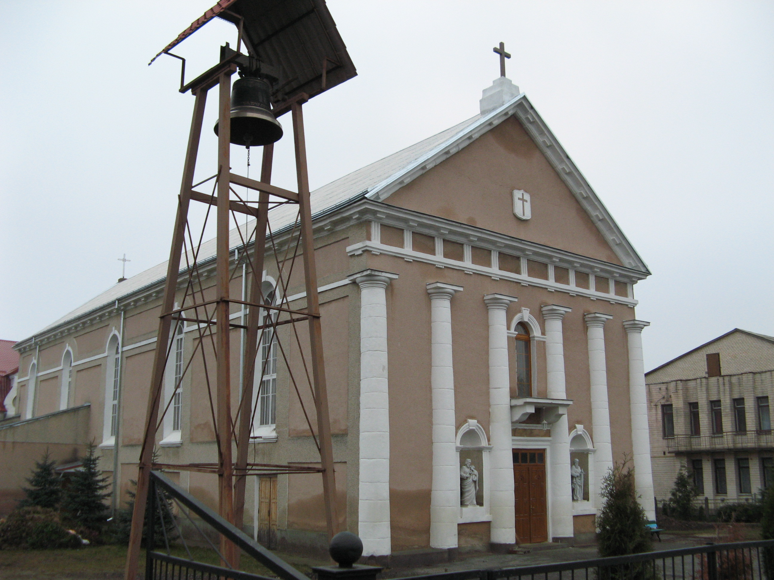 Roman Catholic Church in Yarmolyntsi